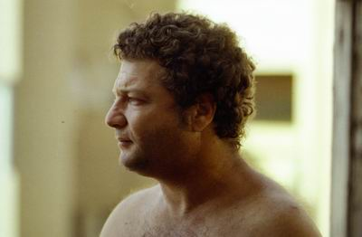 Photograph